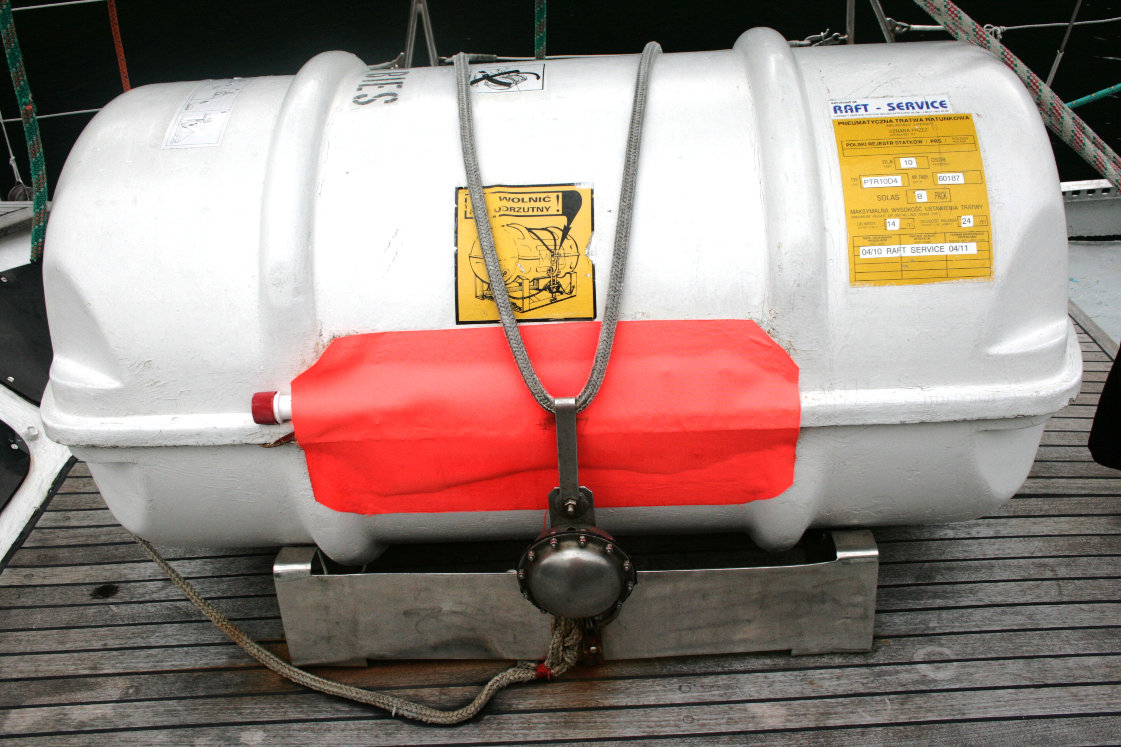 SY Bies - inflatable life raft (PTR10D4)